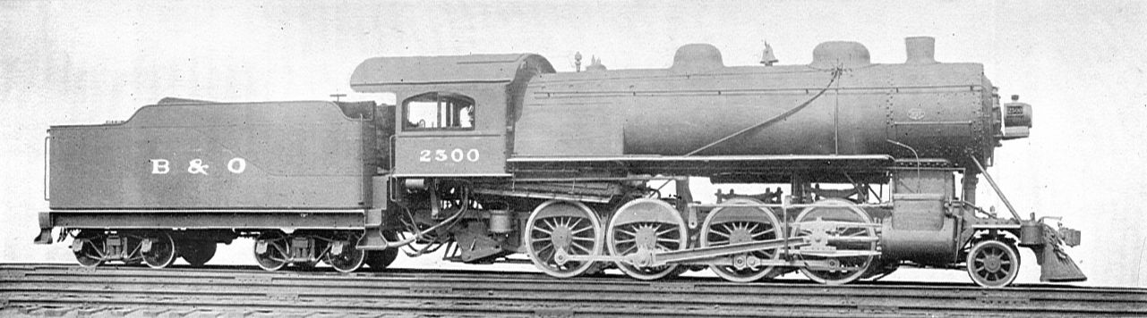 The latest Baltimore and Ohio "Consolidation"